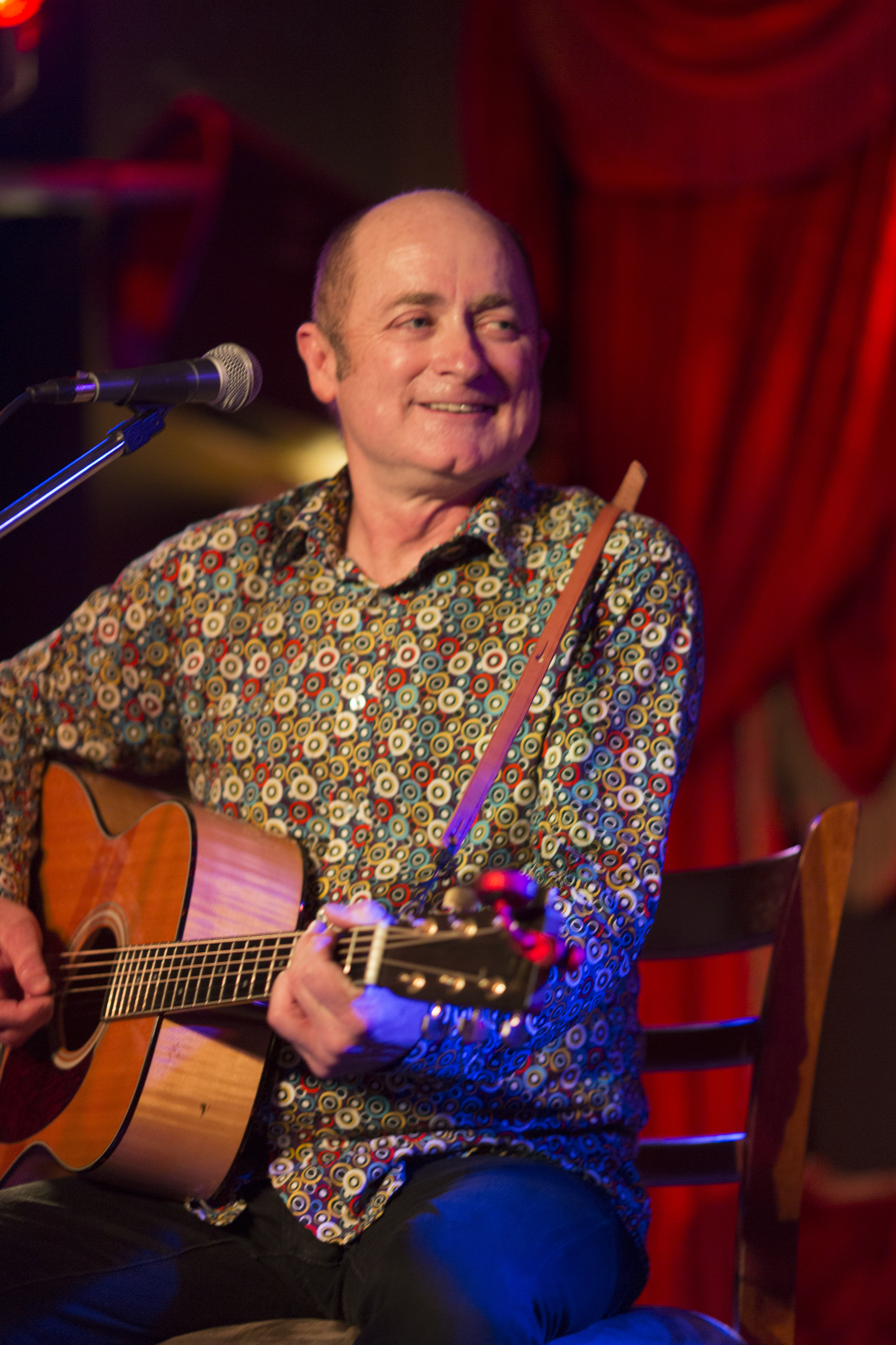 Dave Faulkner and Brad Shepherd @ Lizottes - 7th Feb 2015